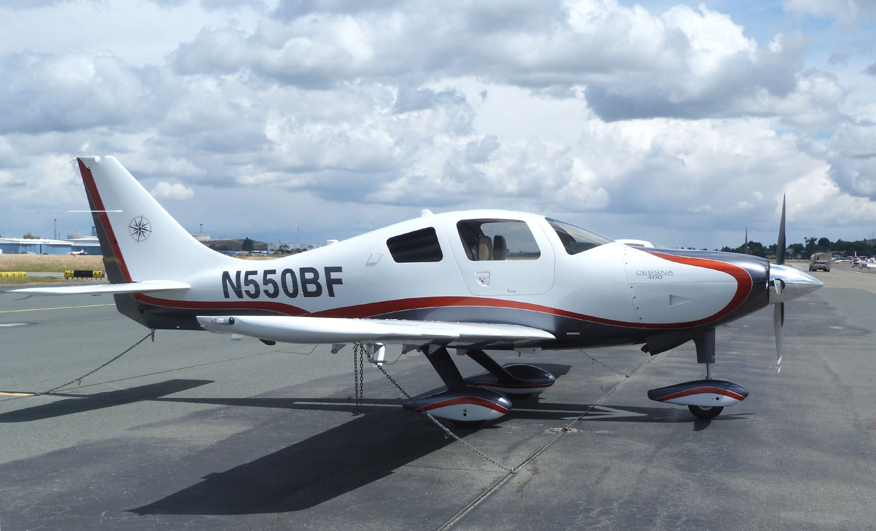 Just a question for anyone listening.... Why does the FAA designate this plane as an LC41 when it says "Cessna 400" on the nose of the plane? There were several others and they all said Cessna 400. (Concord, CA, May 2011)